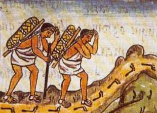 Illustration from the Florentine Codex, Late 16th century.